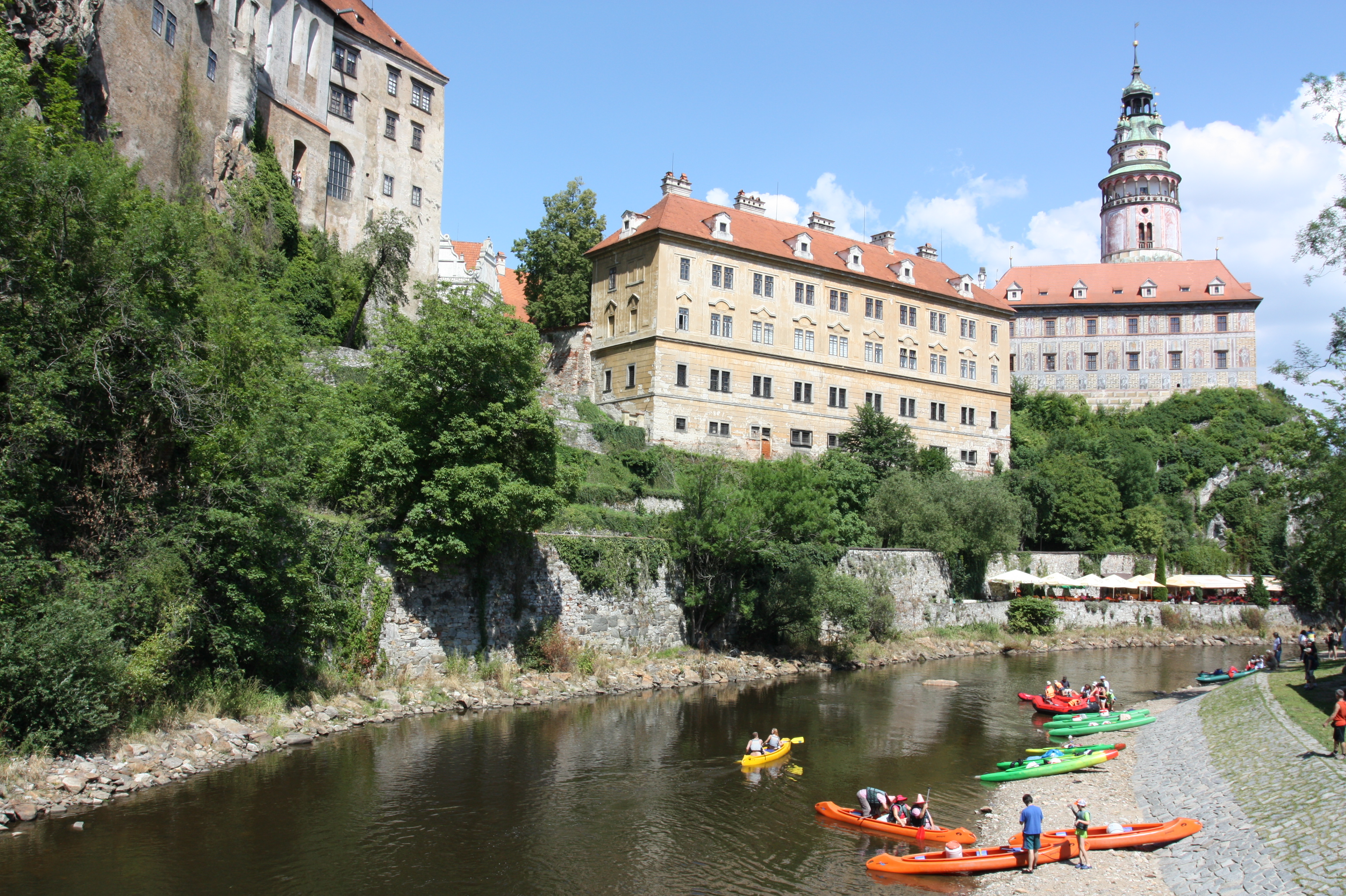 View of Český Krumlov castle